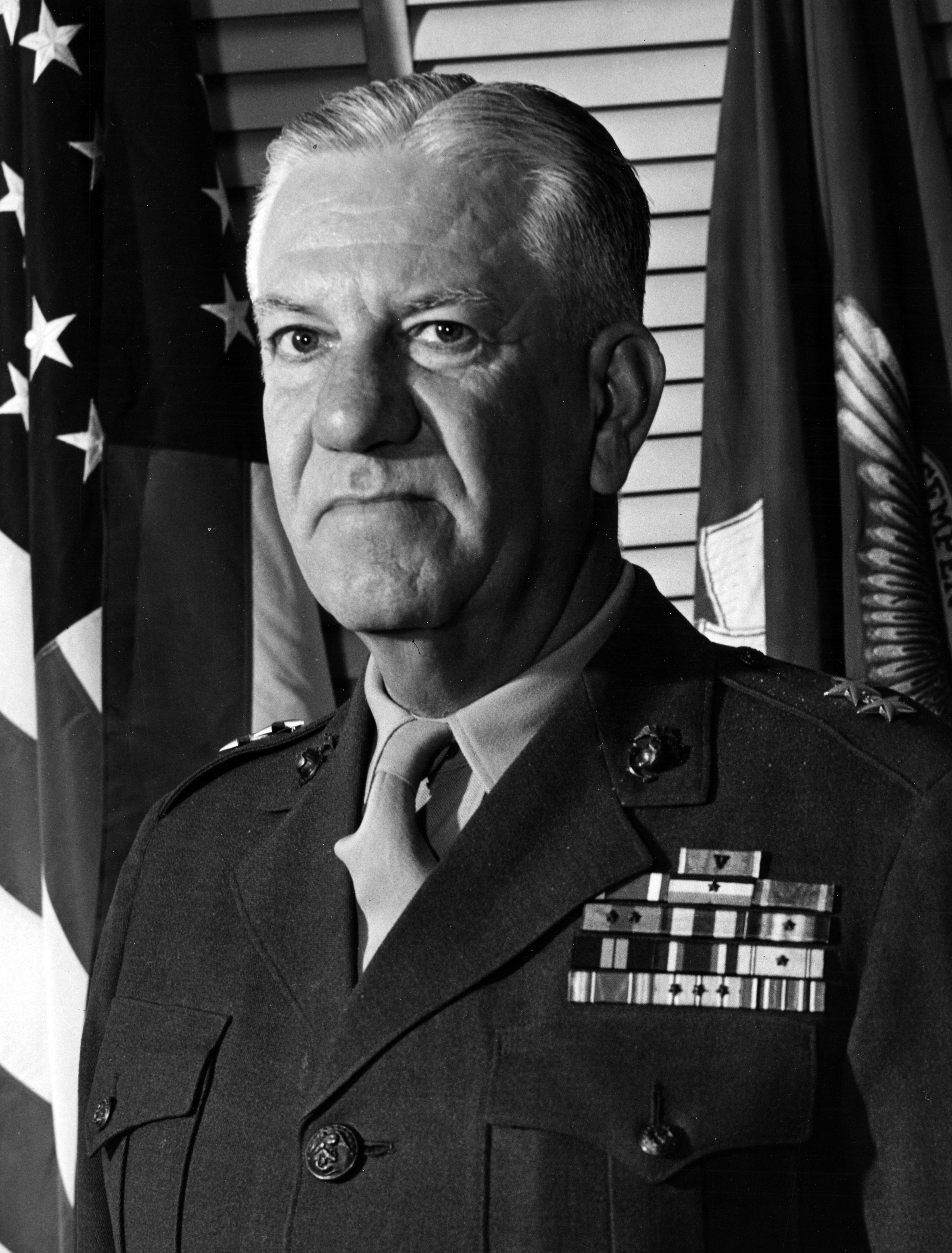 Robert Houston Pepper (April 22, 1895 - June 1, 1968) was an officer of the United States Marine Corps with the rank of Lieutenant General, who is most noted for his work in the development of the Marine defense battalions during World War II and later as Commanding General of the Fleet Marine Force, Pacific or 3rd Marine Division.